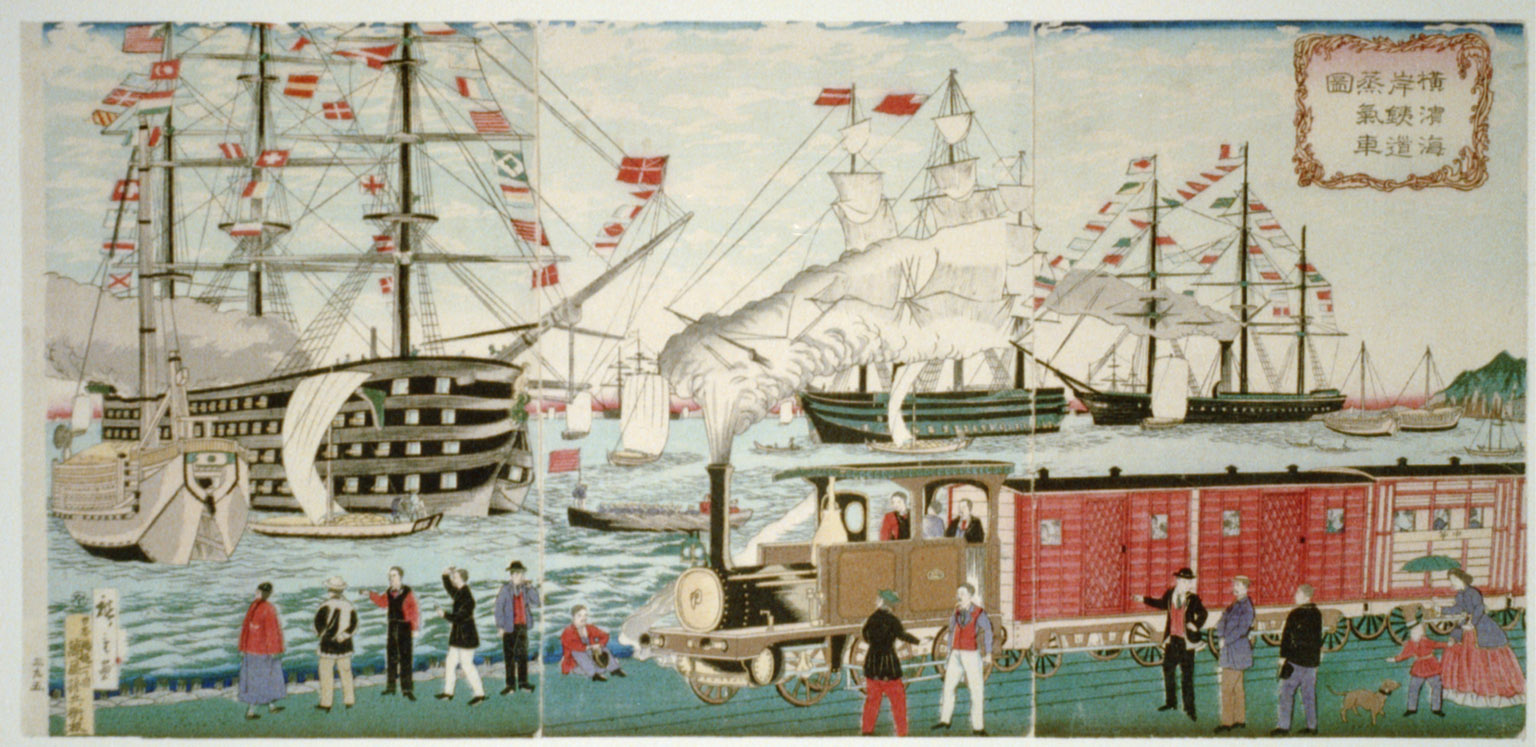 The picture of the steam locomotive railway at Yokohama seaside (横浜海岸鉄道蒸気車図 Yokohama Kaigan Tetsudo Jokisha Zu), drawn by Utagawa Hiroshige III (三代歌川広重), 1874.